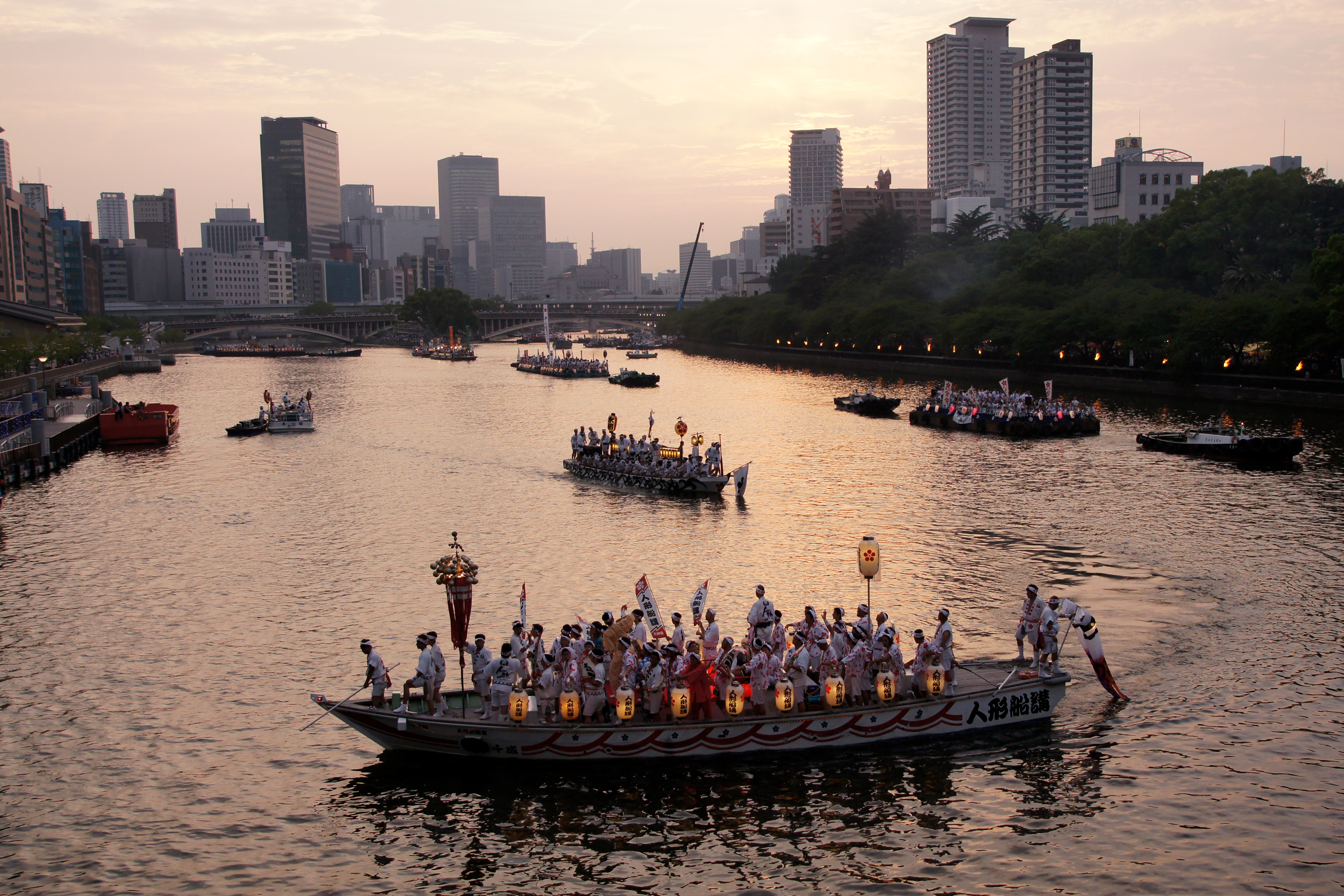 Osaka Tenjinmatsuri at Osaka, Osaka prefecture, Japan.